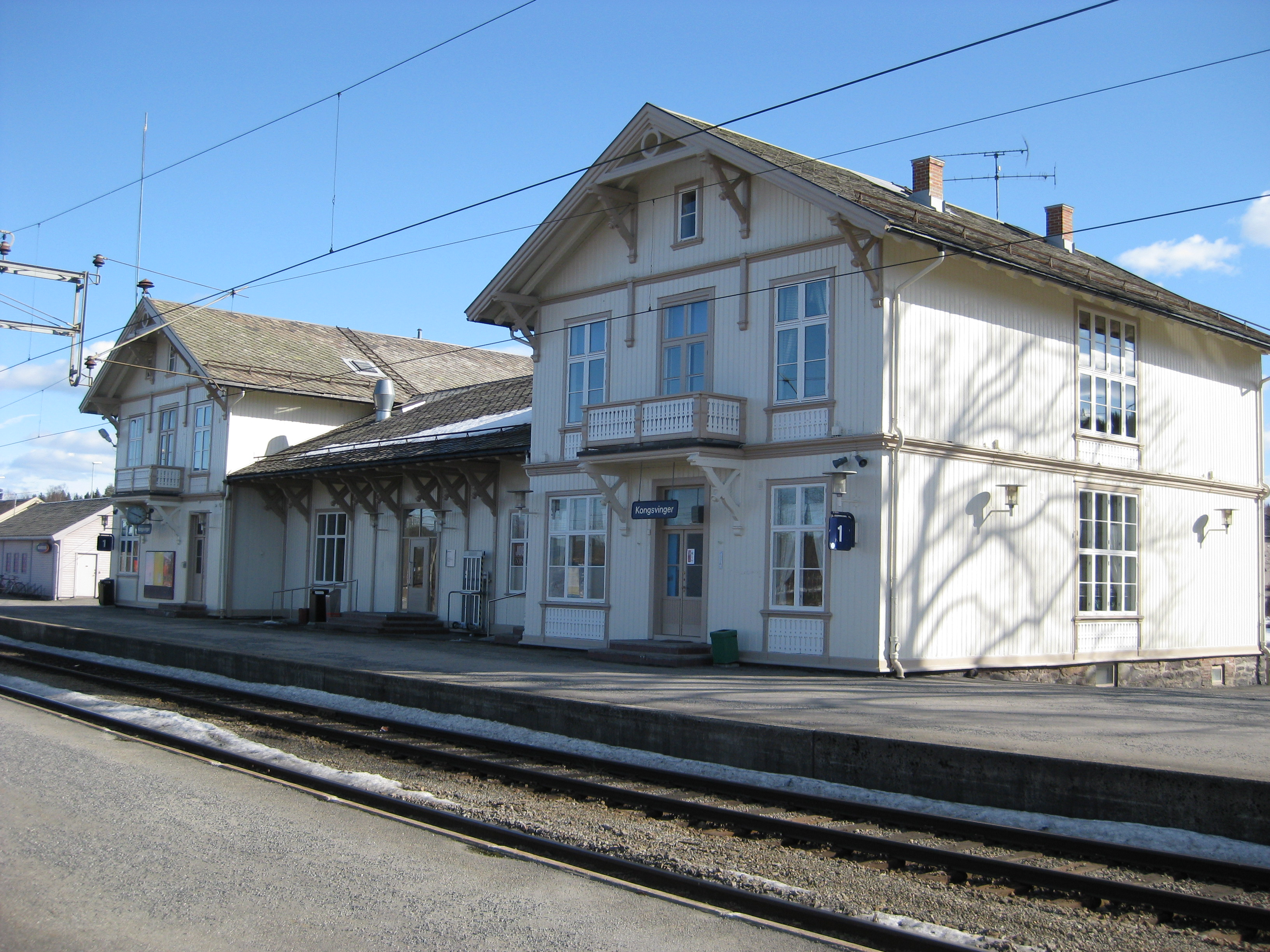 in Norway